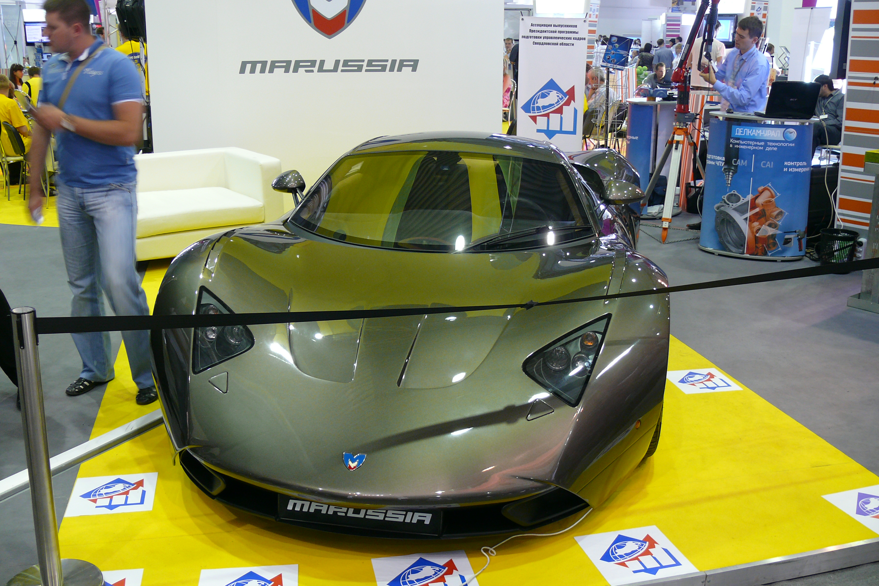 MARUSSIA B1 Front